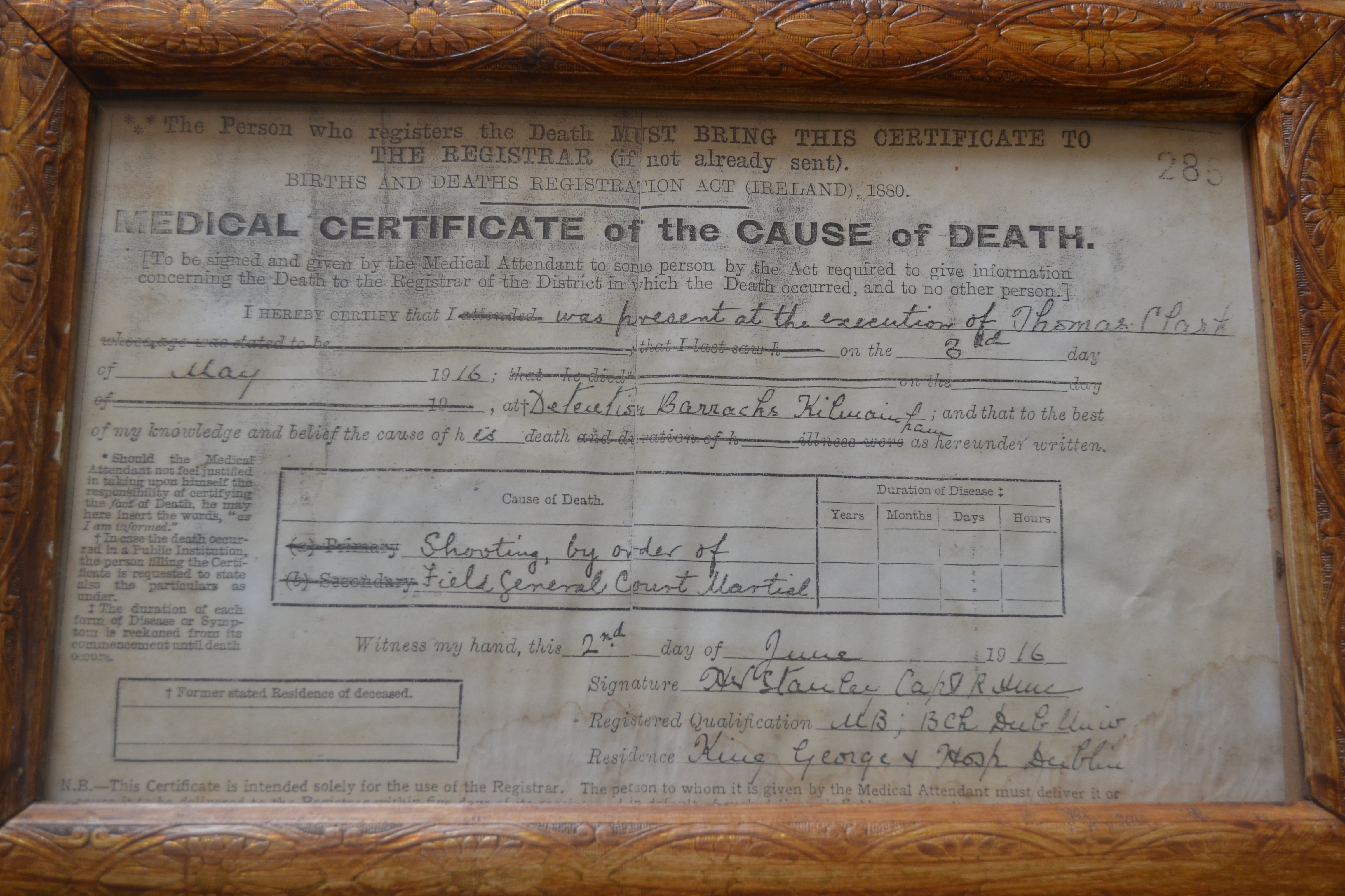 Copy of original death certificate